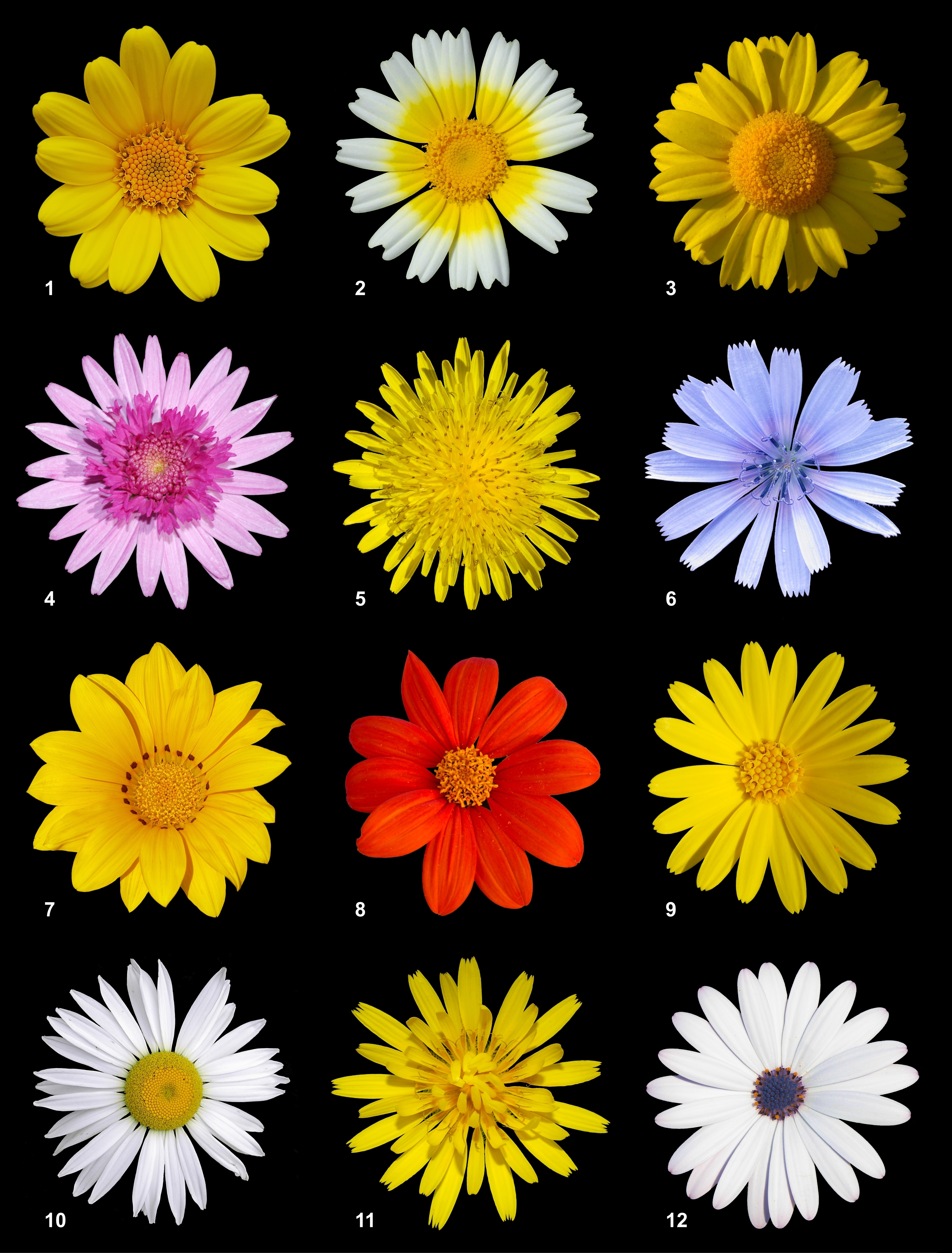 A poster of twelve different species of flowers of the Asteraceae family, belonging to the two most representative subfamilies: Asteroideae and Cichorioideae: Yellow Chamomille - Anthemis tinctoria (Asteroideae) Crown Daisy - Glebionis coronarium (Asteroideae) Coleostephus myconis (Asteroideae) Chrysanthemum - Glebionis sp. (Asteroideae) Sow Thistle - Sonchus oleraceus (Cichorioideae) Chicory - Cichorium intybus (Cichorioideae) Treasure Flower - Gazania rigens (Cichorioideae) Mexican Sunflower - Tithonia rotundifolia (Asteroideae) Field Marigold - Calendula arvensis (Asteroideae) Ox-eye daisy – Leucanthemum vulgare (Asteroideae) Common Hawkweed - Hieracium lachenalii (Cichorioideae) Cape Daisy - Osteospermum ecklonis (Asteroideae)